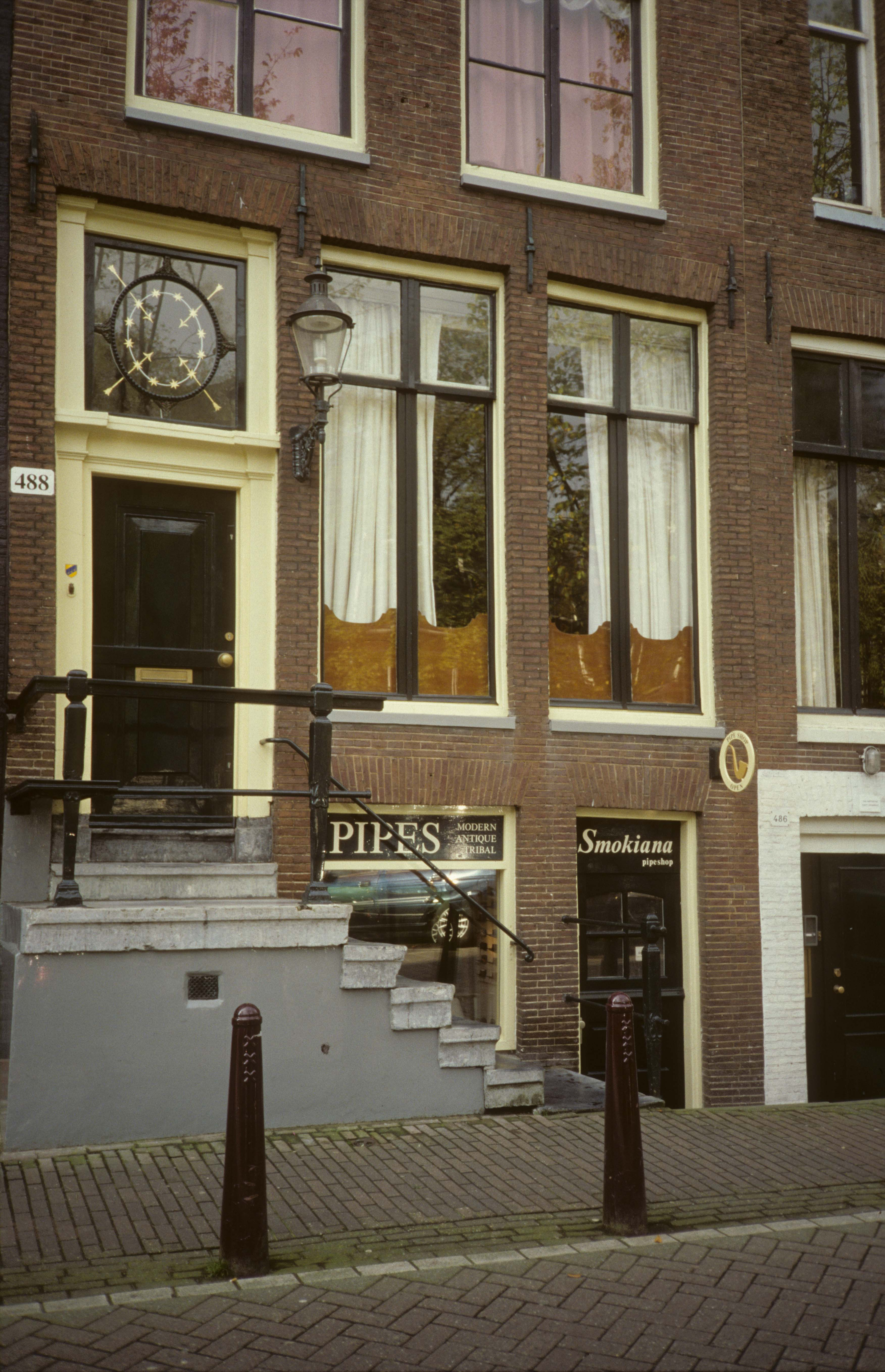 Entrance of the Amsterdam Pipe Museum